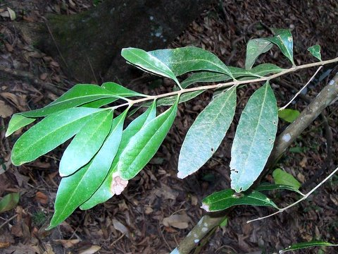 Notelaea longifolia at littoral rainforest behind Seven Mile Beach, NSW